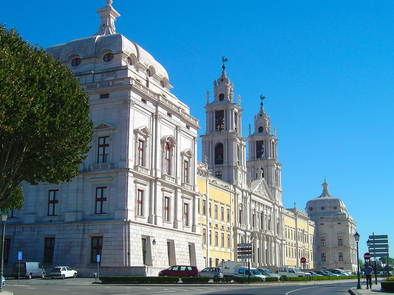 See where this picture was taken. [?]